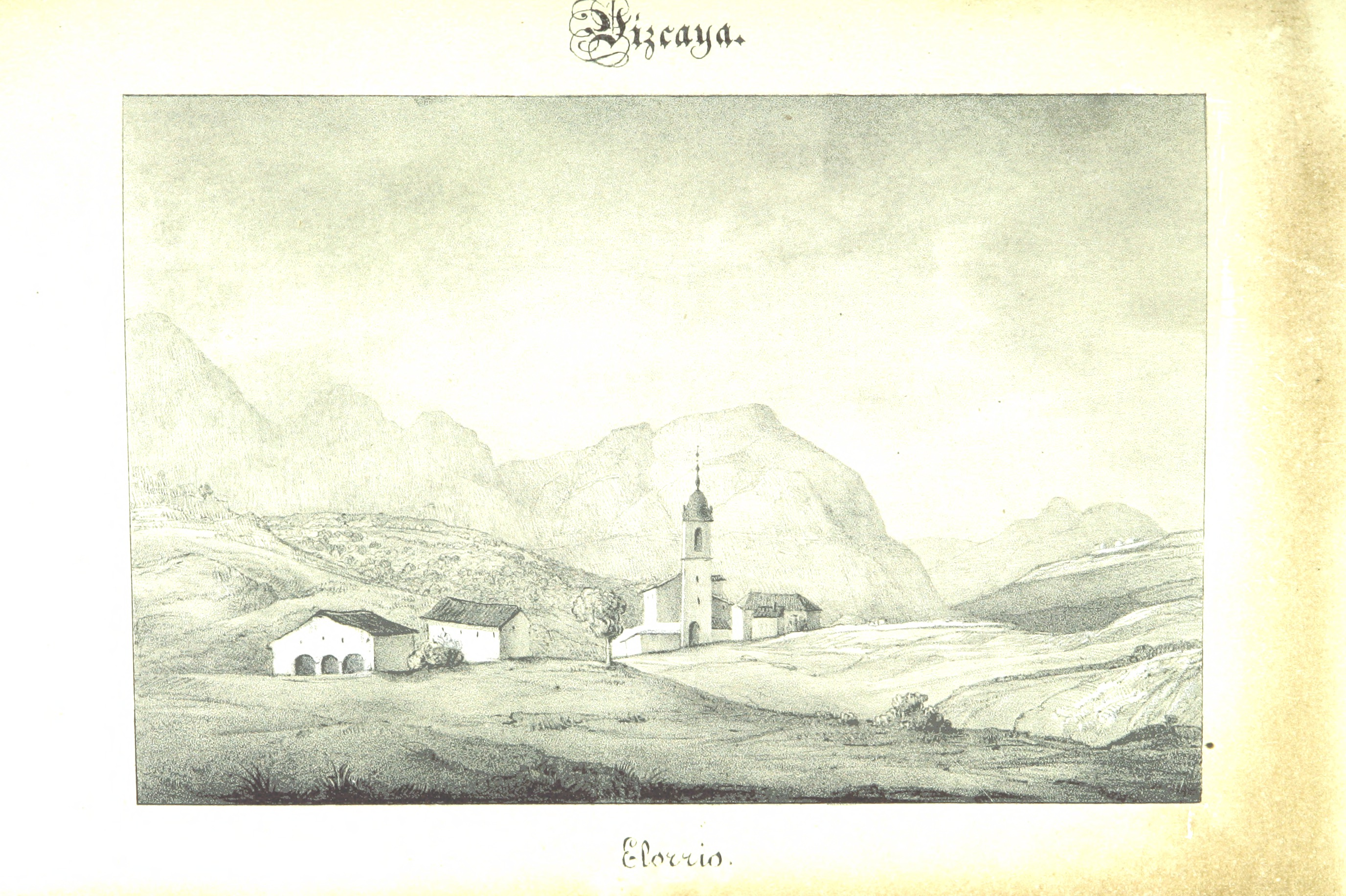 Image taken from: Title: "Revista pintoresca de las provincias Bascongadas. Edicion de lujo. Adornada con vistas ... por S. Lambla. Escrita por L. M. de E. y A. A. y H. Entrega 1-45" Author: E., L. M. de - and A. y H. (A.) Contributor: A. y H., A. Contributor: LAMBLA, Julio. Shelfmark: "British Library HMNTS 10161.f.16." Page: 457 Place of Publishing: Bilbao Date of Publishing: 1844 Issuance: monographic Identifier: 001024664 Explore: Find this item in the British Library catalogue, 'Explore'. Download the PDF for this book (volume: 0) Image found on book scan 457 (NB not necessarily a page number) Download the OCR-derived text for this volume: (plain text) or (json) Click here to see all the illustrations in this book and click here to browse other illustrations published in books in the same year. Order a higher quality version from here.